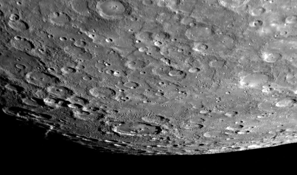 This image shows that previously unseen side, with a view looking toward Mercury's south pole. The southern limb of the planet can be seen in the bottom right of the image. The bottom left of the image shows the transition from the sunlit, day side of Mercury to the dark, night side of the planet, a transition line known as the terminator.The crater near the center of the top edge is Neruda. The prominent crater near bottom center is Magritte. The pole itself is beyond the horizon. Acquired on MESSENGER's first flyby. Image EN0108830711M.